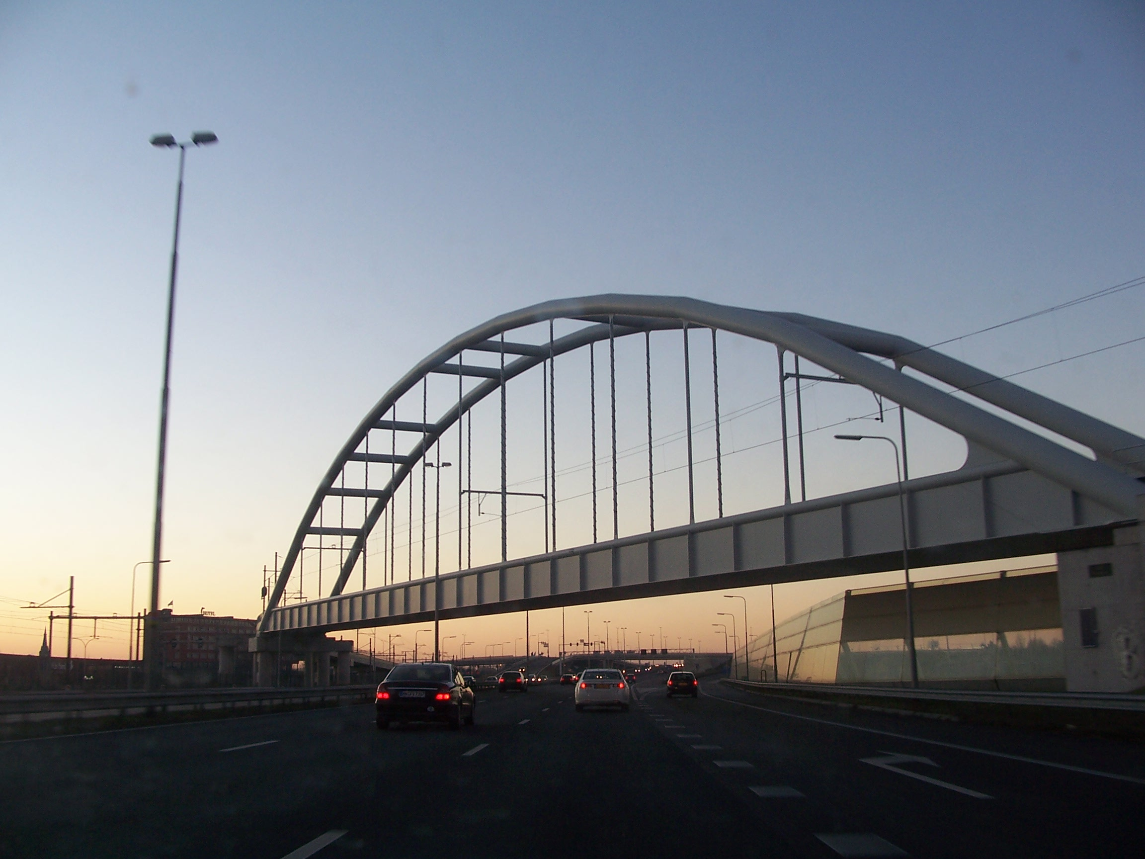 Train bridge in Zoetermeer, The Netherlands.